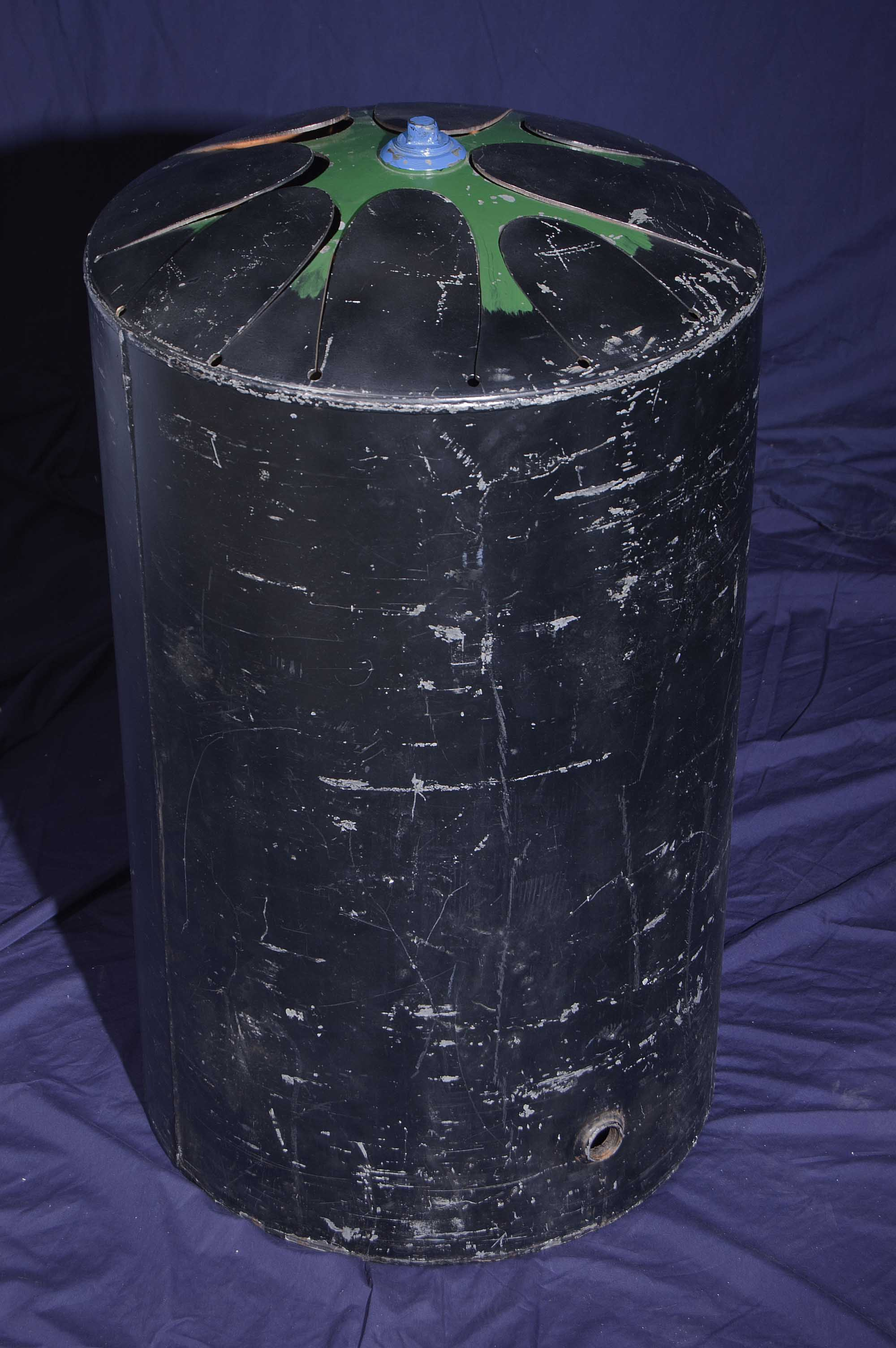 Whale drum (from Emil Richards Collection), 8 tongues Other information See User:Xylosmygame for more information. Xylosmygame (talk) 17:08, 5 September 2012 (UTC)